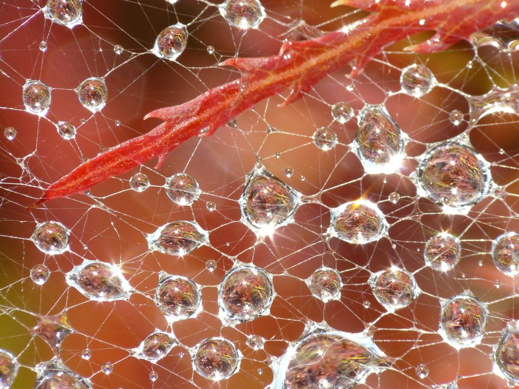 Spider webs, drops